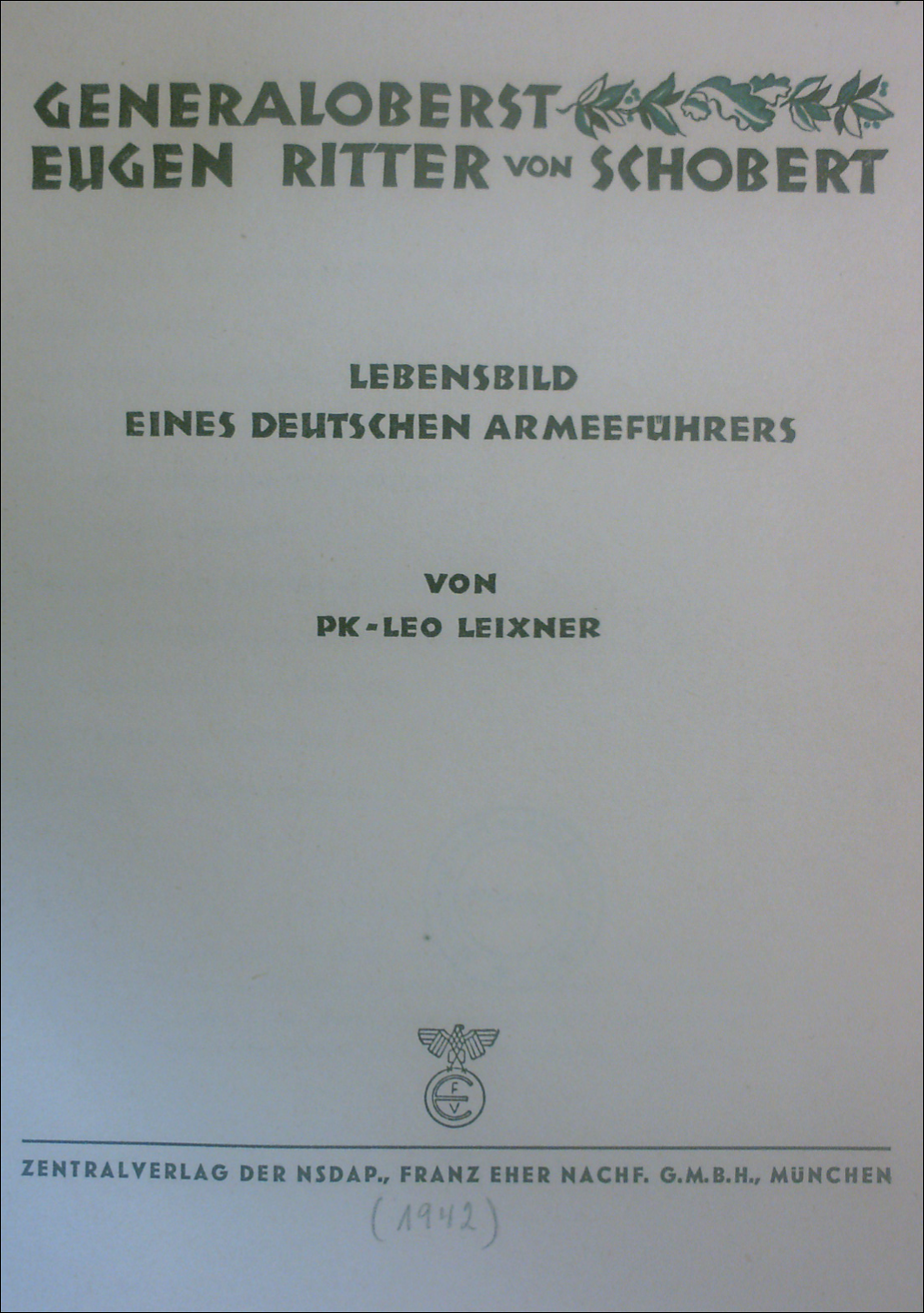 Front page of the book Leo Leixner: Generaloberst Eugen Ritter von Schobert, Zentralverlag der NSDAP „Franz Eher“, München 1942. about Colonel General Eugen Ritter von Schobert (1883-1941)